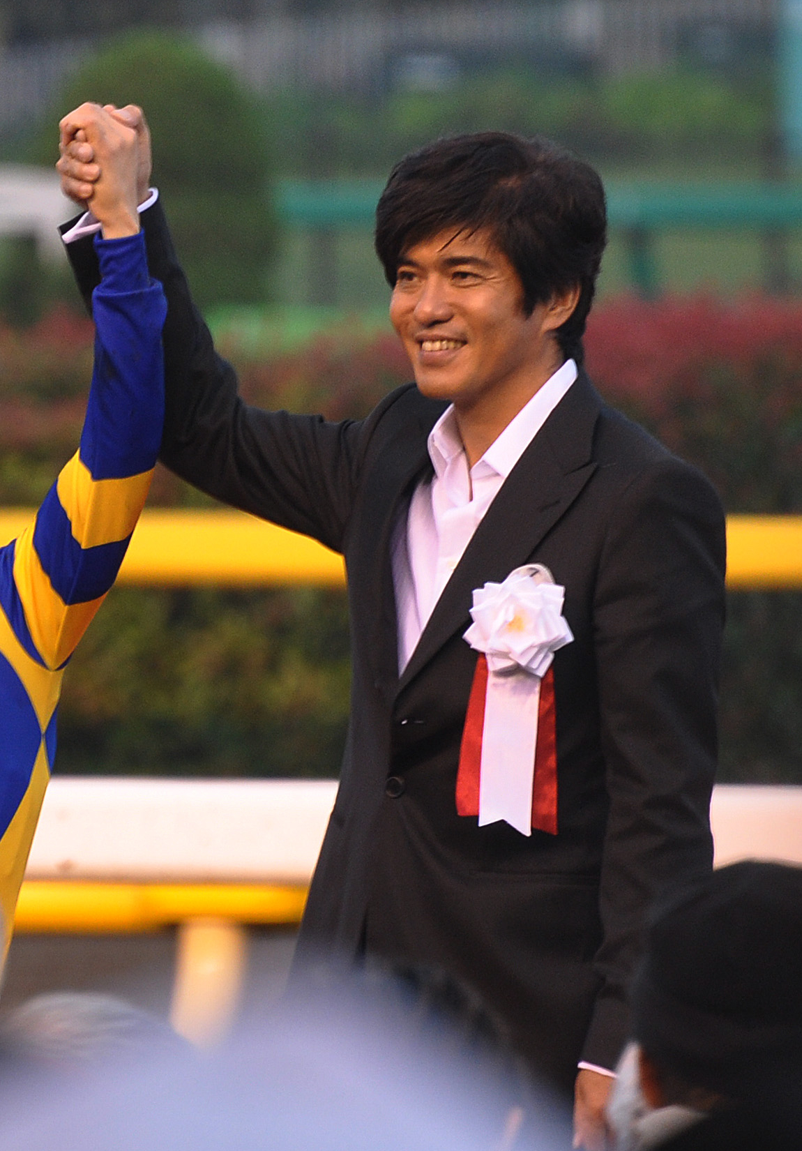 Japanese actor Kōichi Satō